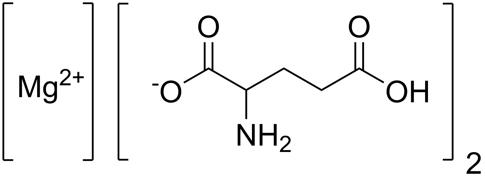 Chemical structure of magnesium diglutamate (magnesium glutamate)